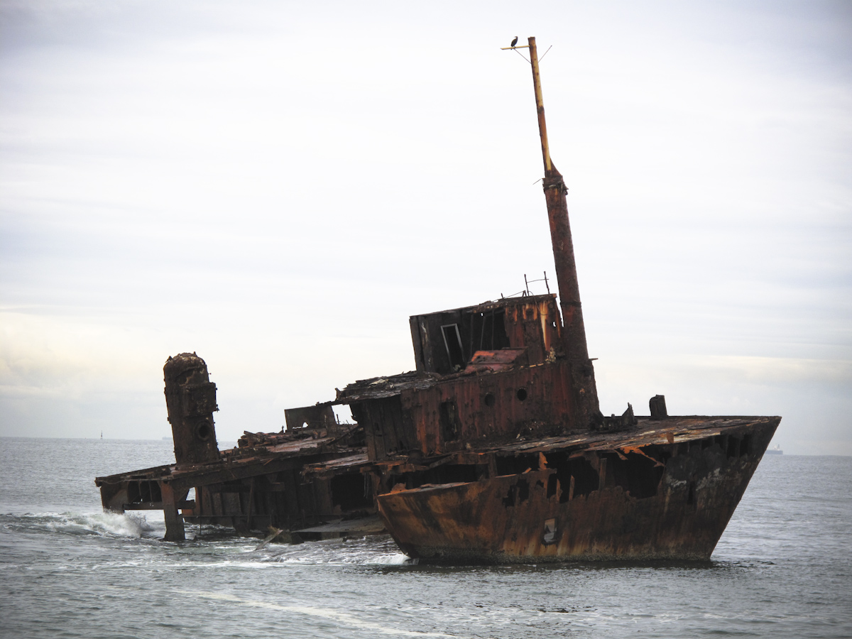 Wreck of the on Stockton Beach, New South Wales Australia Camera coordinates